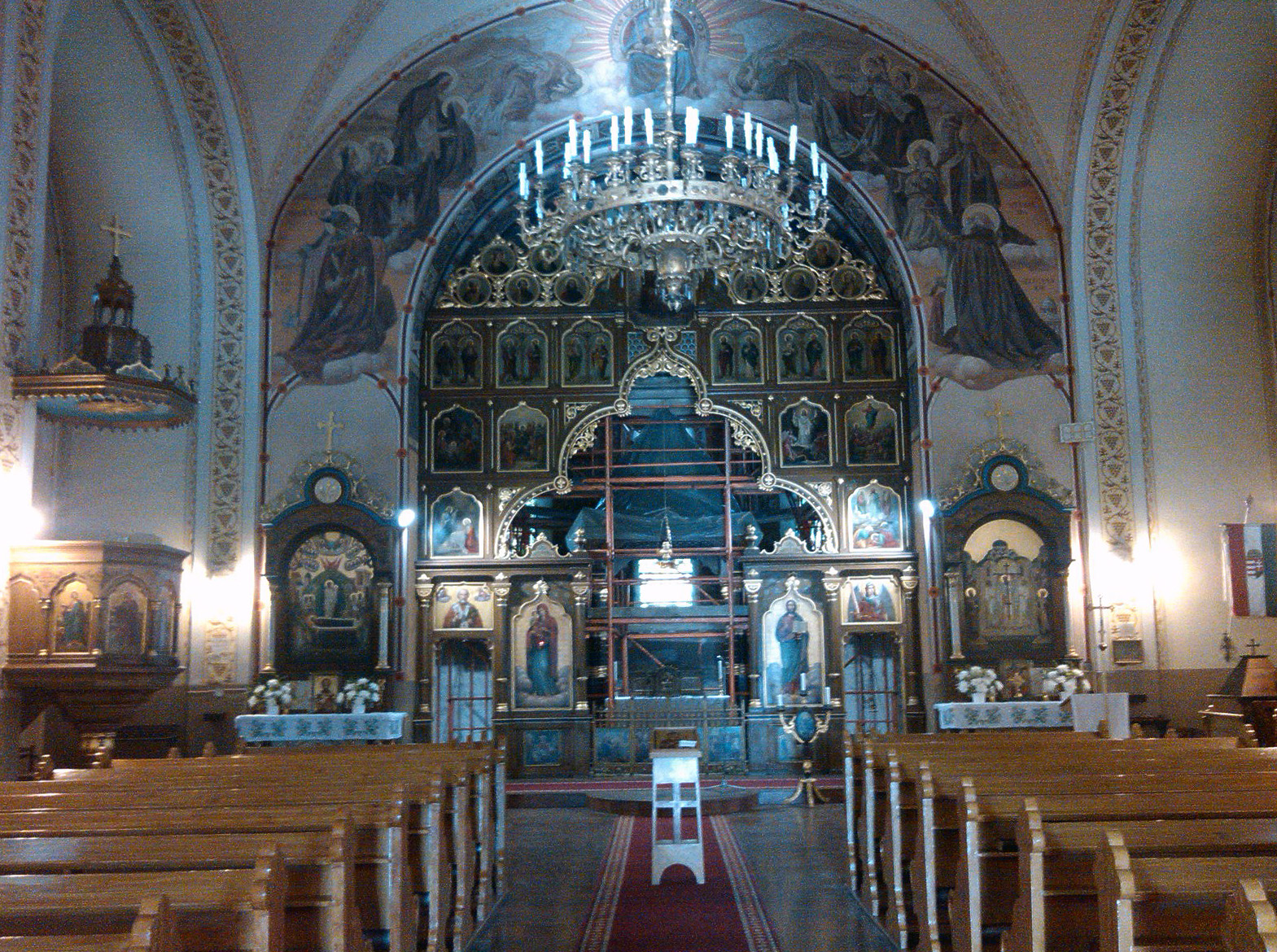 Interior of the Greek Catholic Church, Búza Square, Miskolc, Hungary